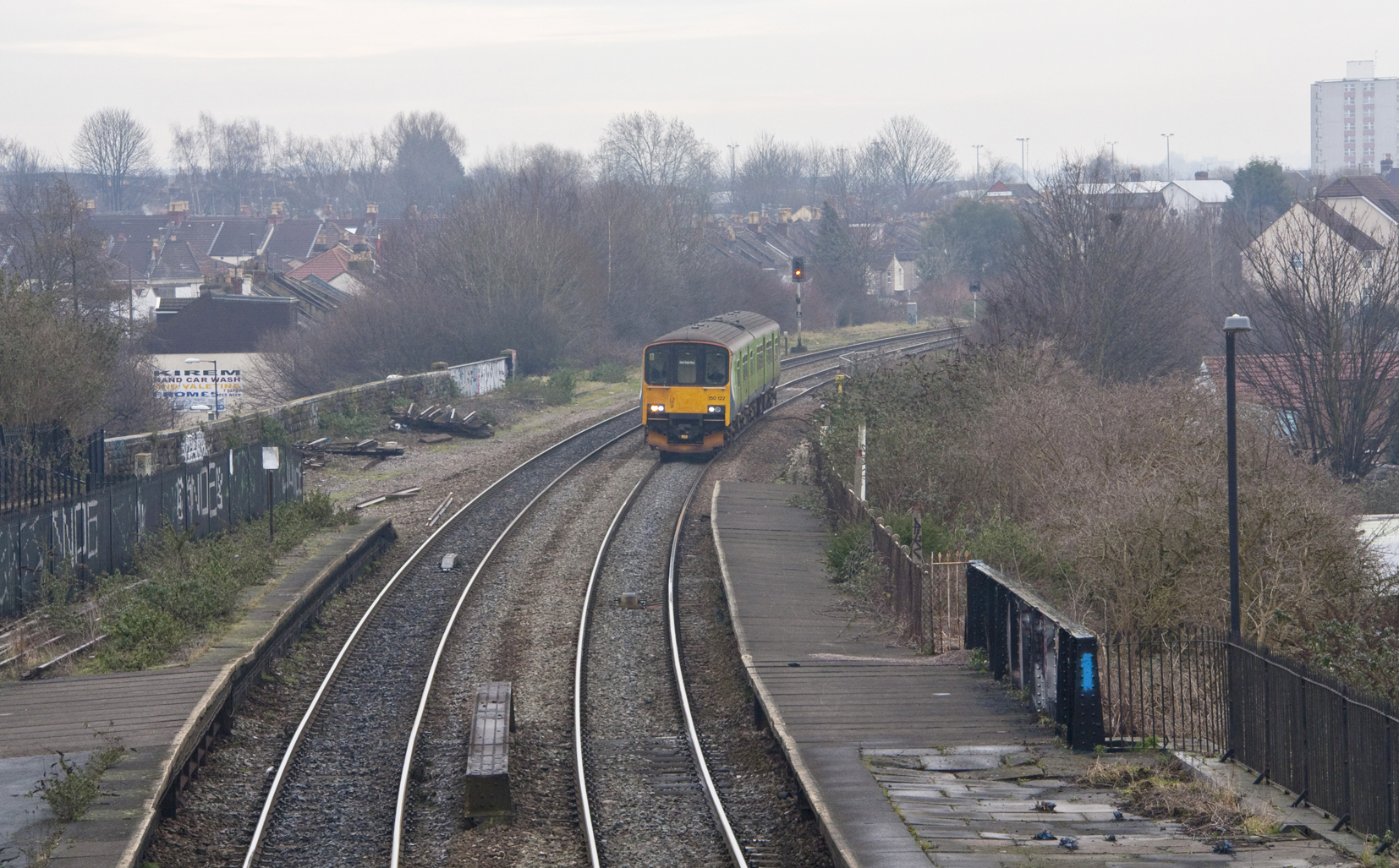 First Great Western class 150 Sprinter DMU 150122 approaches Stapleton Road with a northbound Severn Beach Line service.